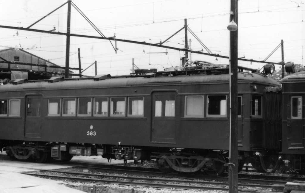 Hankyu 383 electric car (built in 1936), the only one left out of the 380 Series, stored at Hirano Depot